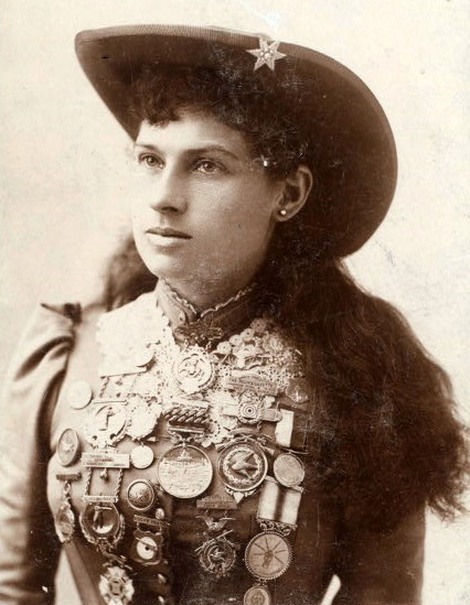 Annie Oakely, from Stacy Co. Cabinet Card, cropped, histogram fixed